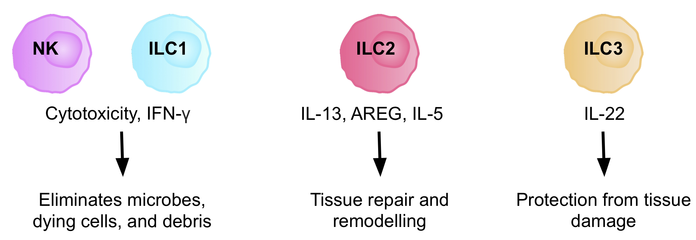 The ILCs and their role in tissue repair and regeneration after infection and cellular damage.